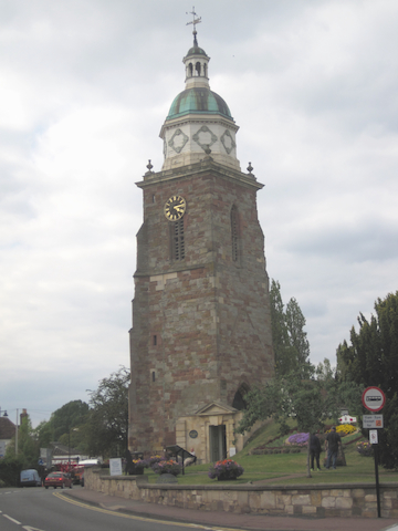 Photo: 'The Pepperpot', a local landmark in Upton-upon-Severn, England